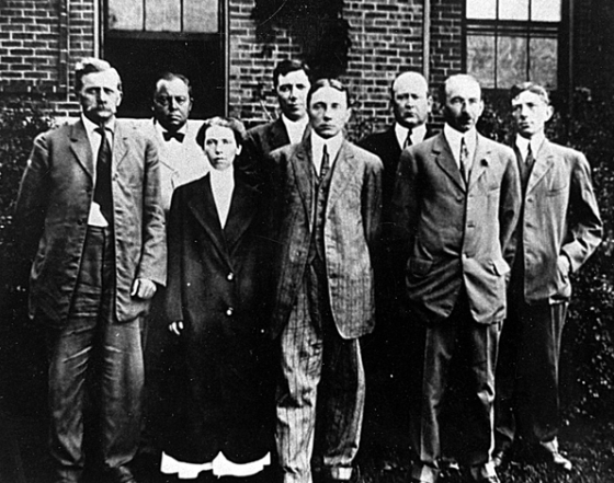 Edith Patch and other staff of the Maine Agricultural Experiment Station, 1914–1915. Back row: C. D. Woods, R. Pearl, W. J. Morse, F. M. Surface. Front row: J. M. Bartlett, E.M. Patch, M. Shapovalov, H. H. Hansen.